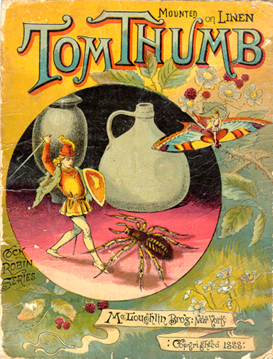 Front cover of Tom Thumb, Cock Robin Series, McLoughlin Bro. New York.